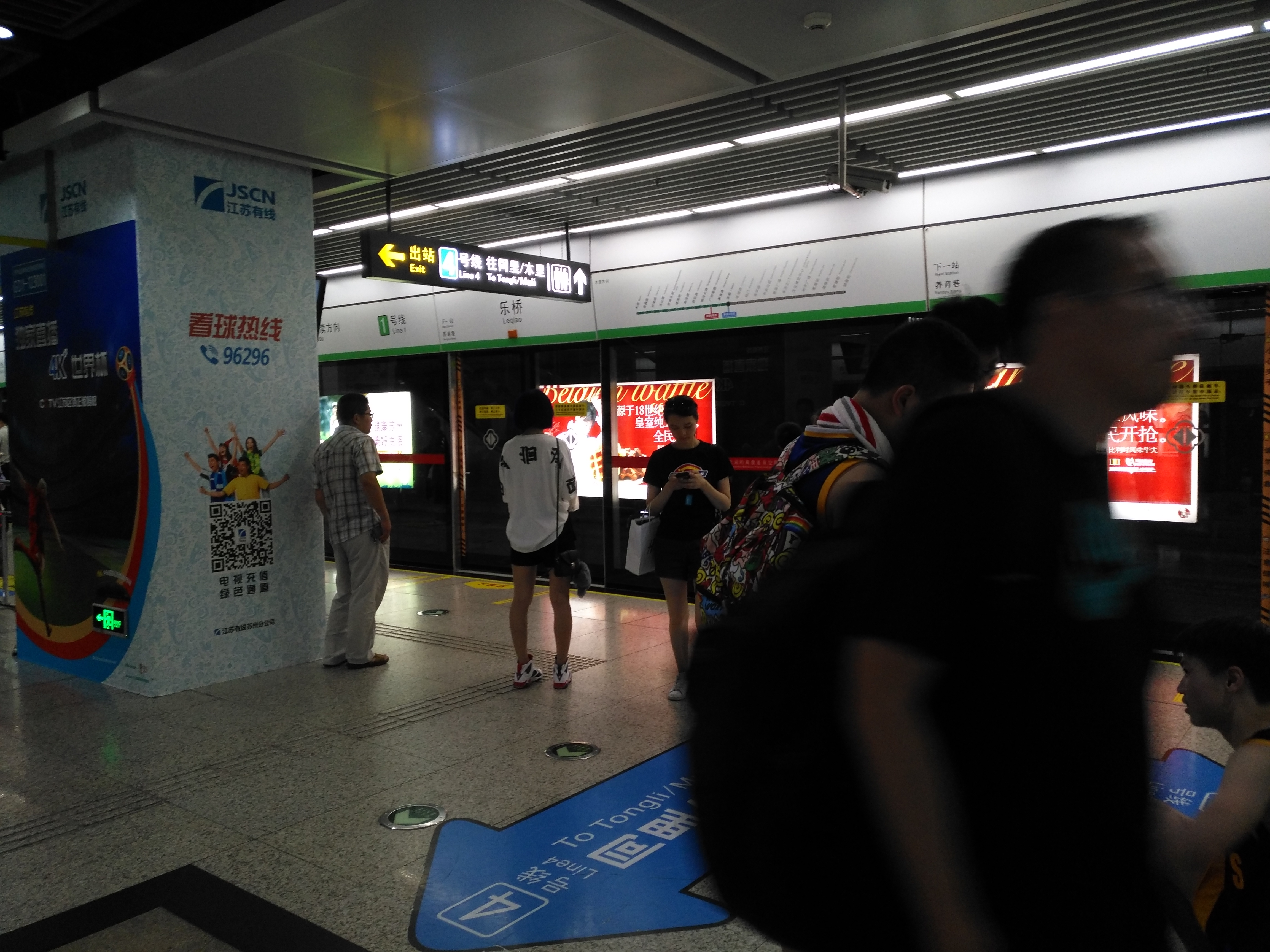 Platform of Leqiao Station of Line 1, Suzhou Rail Transit (towards Mudu), with 2018 FIFA World Cup advertisement. 中文（中国大陆）: 苏州轨道交通1号线乐桥站站台（木渎方向）